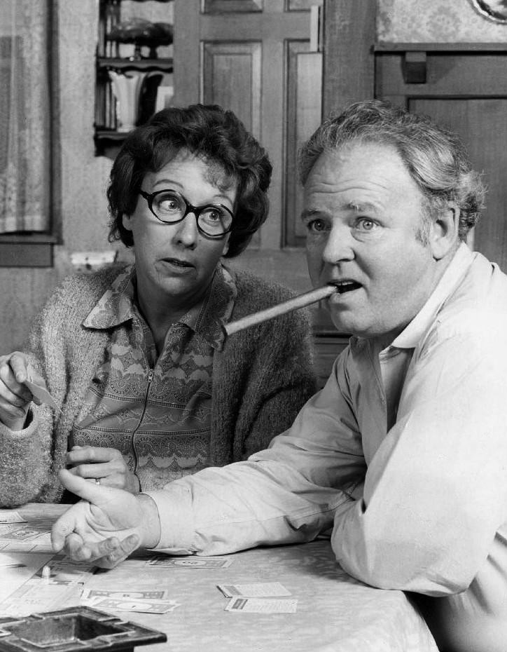 Photo of Jean Stapleton and Carroll O'Connor as Edith and Archie Bunker from the television program All In the Family. During a family Monopoly game, Archie is all smiles when he's doing well, but when fortune starts turning Edith's way, Archie isn't happy about it.